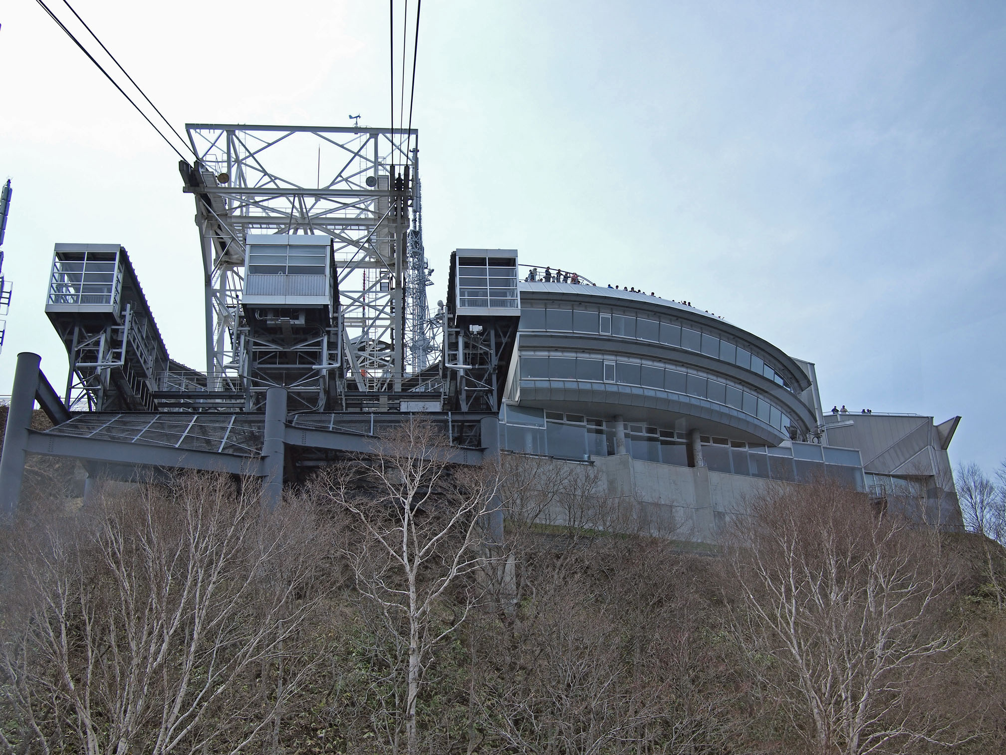 Top station of Mt.Hakodate Ropeway, Hakodate, Hokkaido, Japan